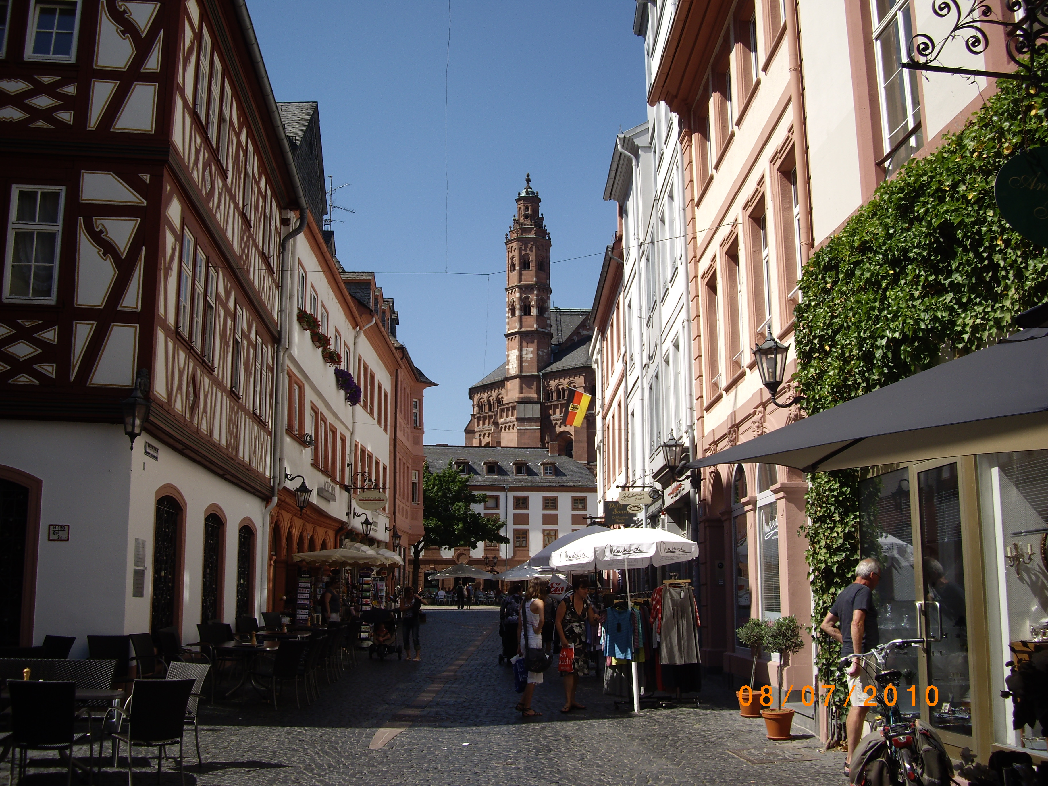 Mainz cathedral from Kirschgarten view through Augustinerstraße across the Leichhof towards the western choir